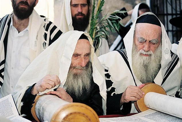 JEWISH PRAYERS